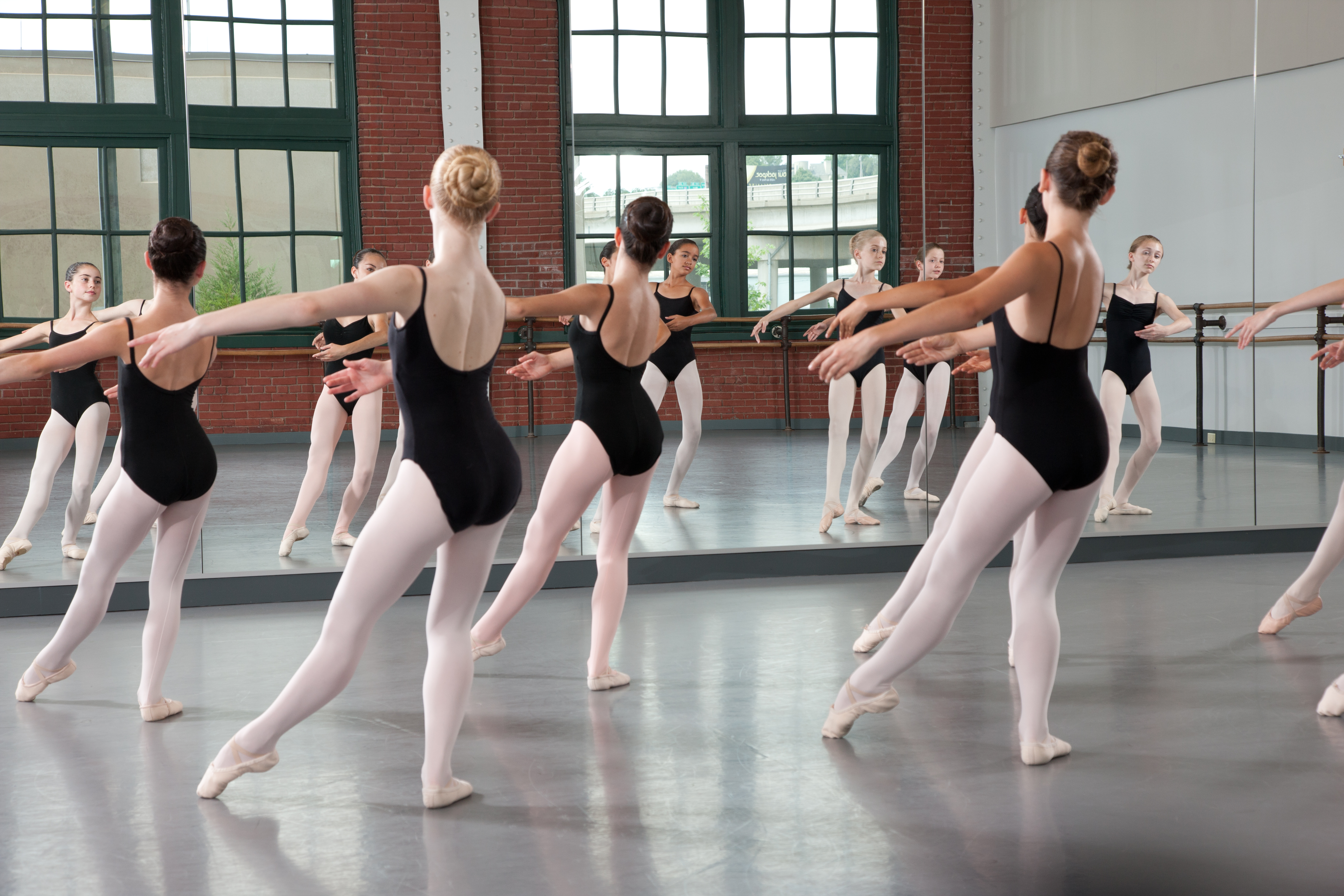 Kansas City Ballet - Upper School Photography by Brett Pruitt & East Market Studios Copyright Kansas City Ballet